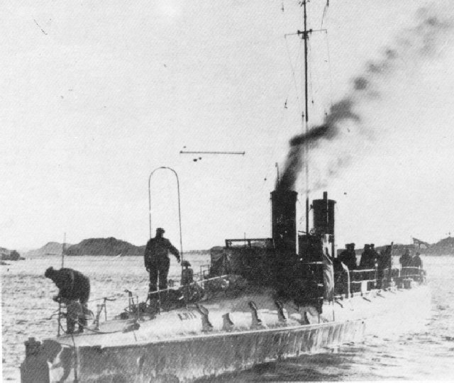 Royal Norwegian Navy 2. class torpedo boat HNoMS Kjell carrying out neutrality protection duties off Norway.